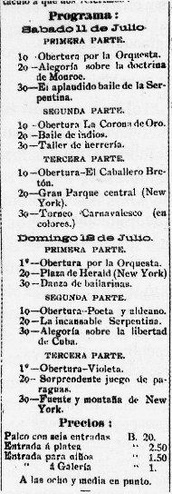 Newspaper program listing for first Ven film screening